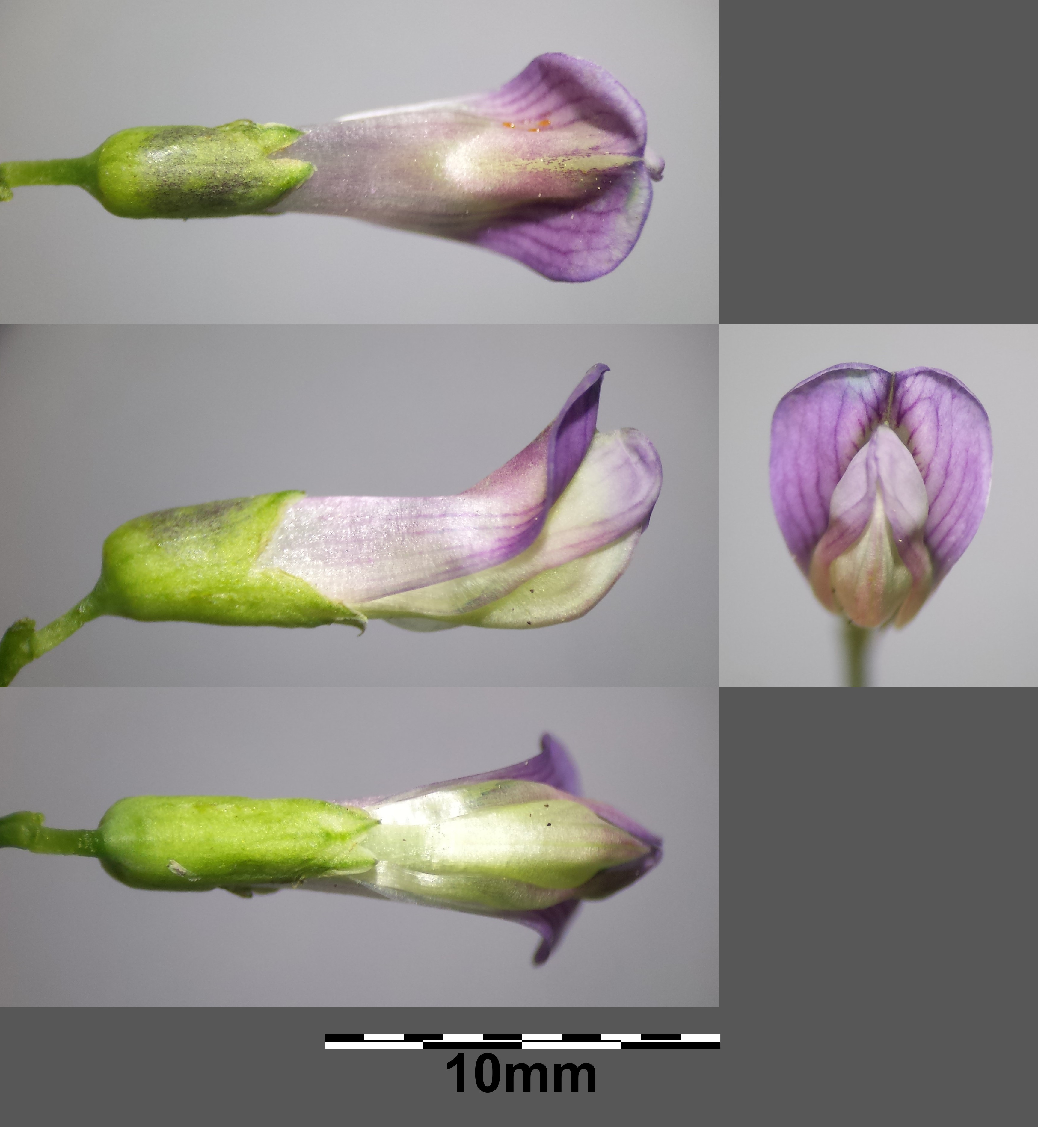 Flower Taxonym: Vicia dumetorum ss Fischer et al. EfÖLS 2008 ISBN 978-3-85474-187-9 Location: Kremser Zwickl, district Krems-Land, Lower Austria - ca. 450 m a.s.l. Habitat: border of a shrubbery